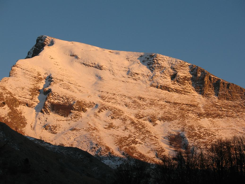 Mount Sagro